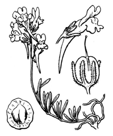 Linaria supina drawing